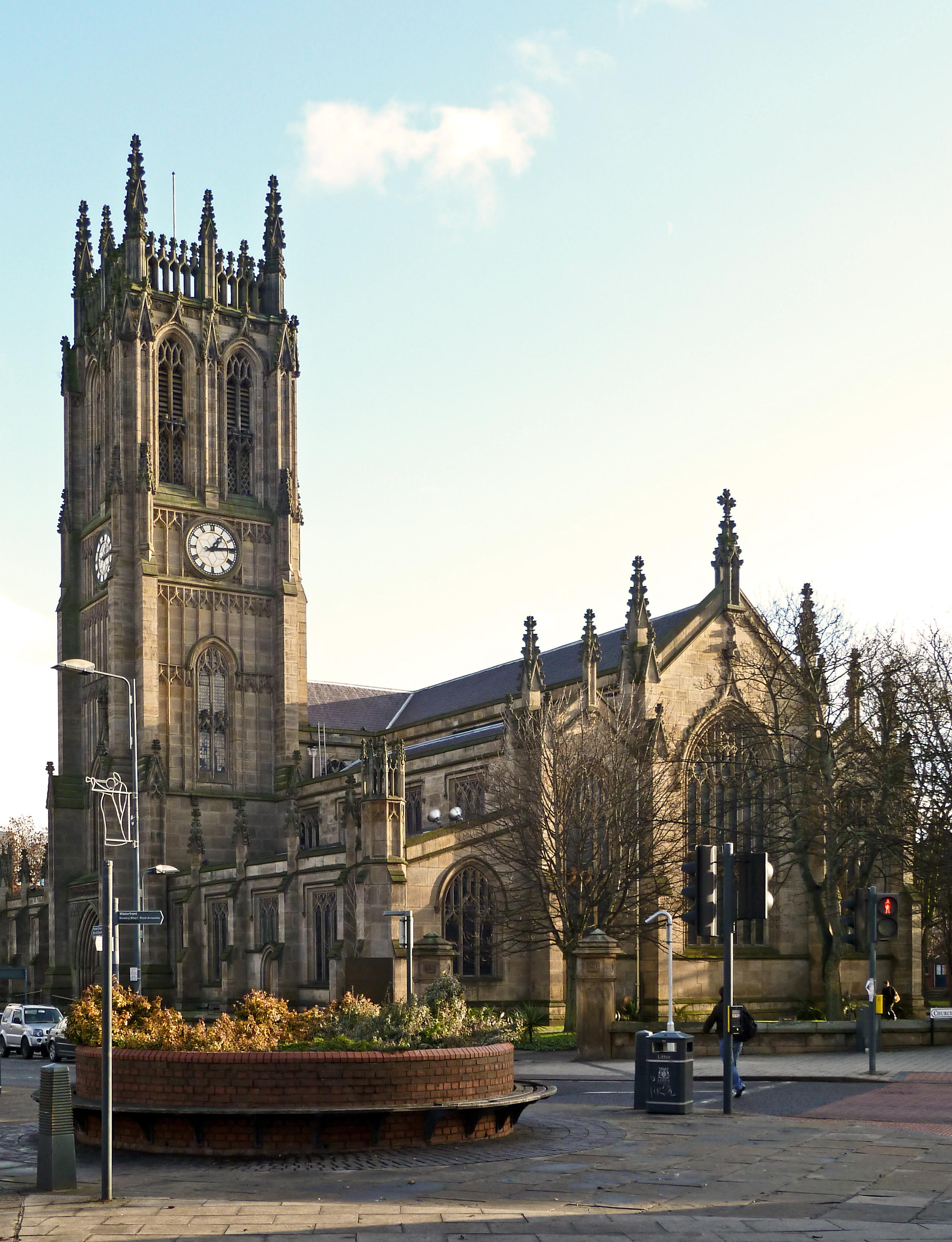 St Peter, Leeds (Leeds Parish Church)